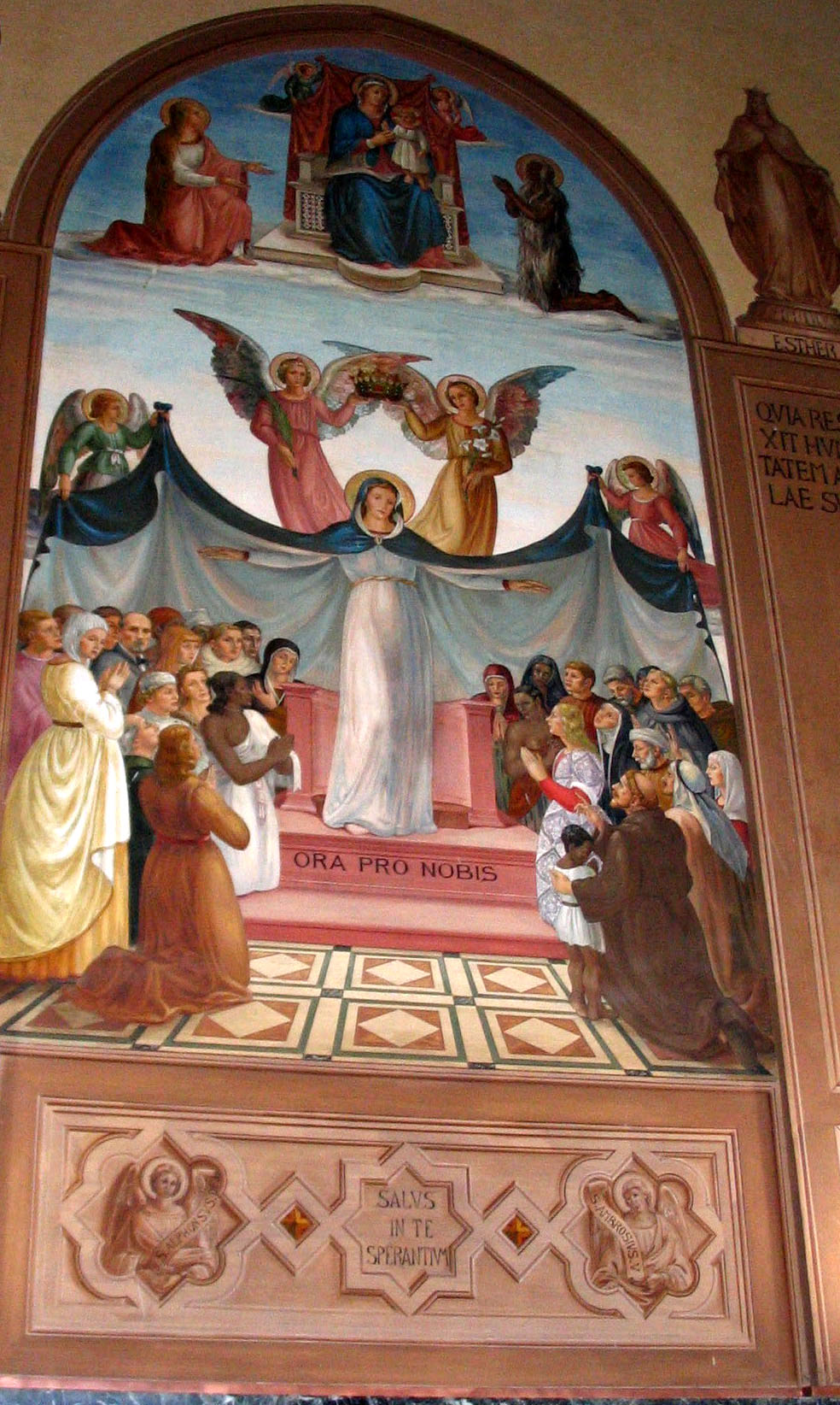 Ein Kerem, Church of Visitation